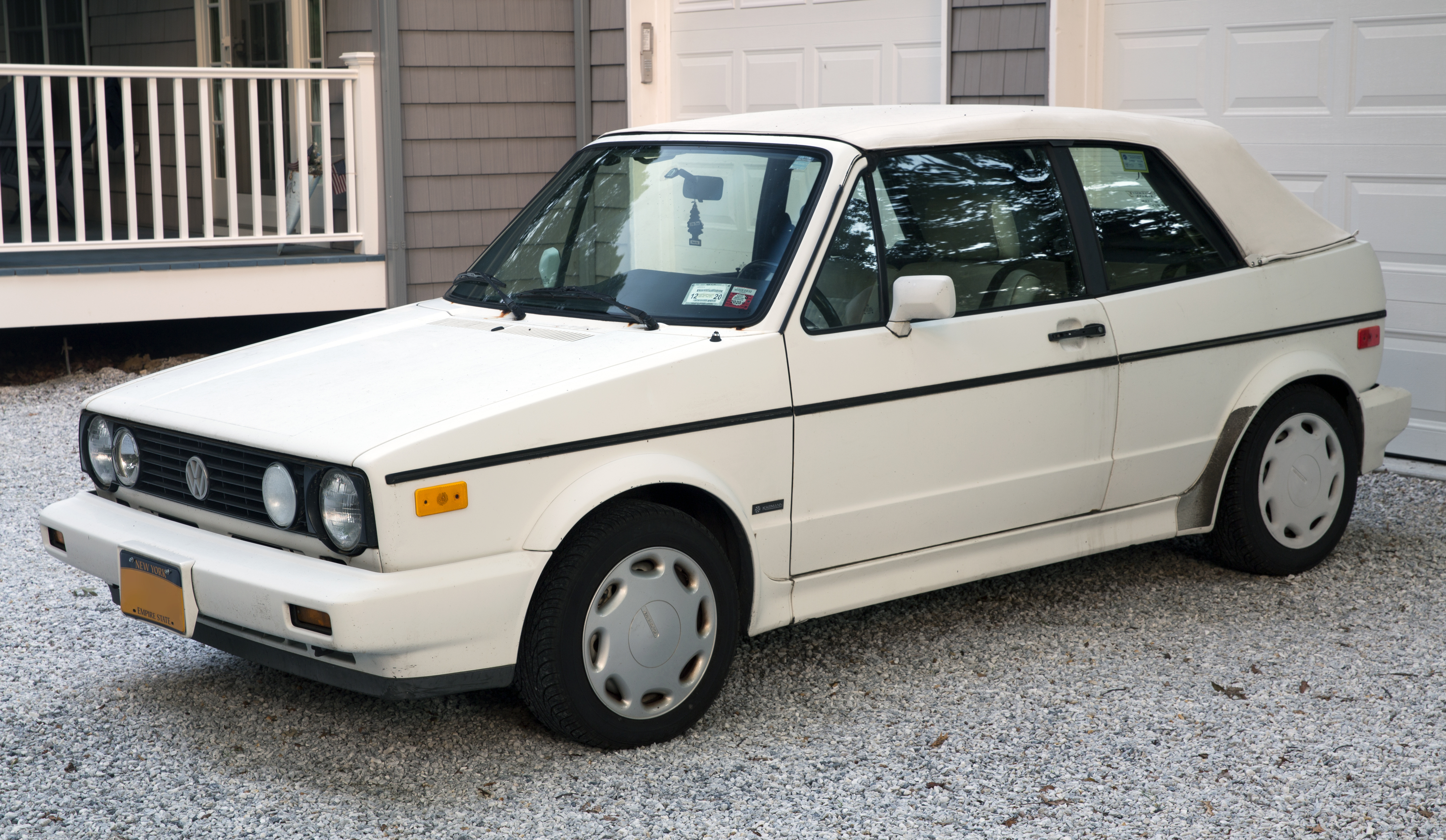 1992 Volkswagen Cabriolet, 5-speed manual, built by Karmann in Osnabrück.